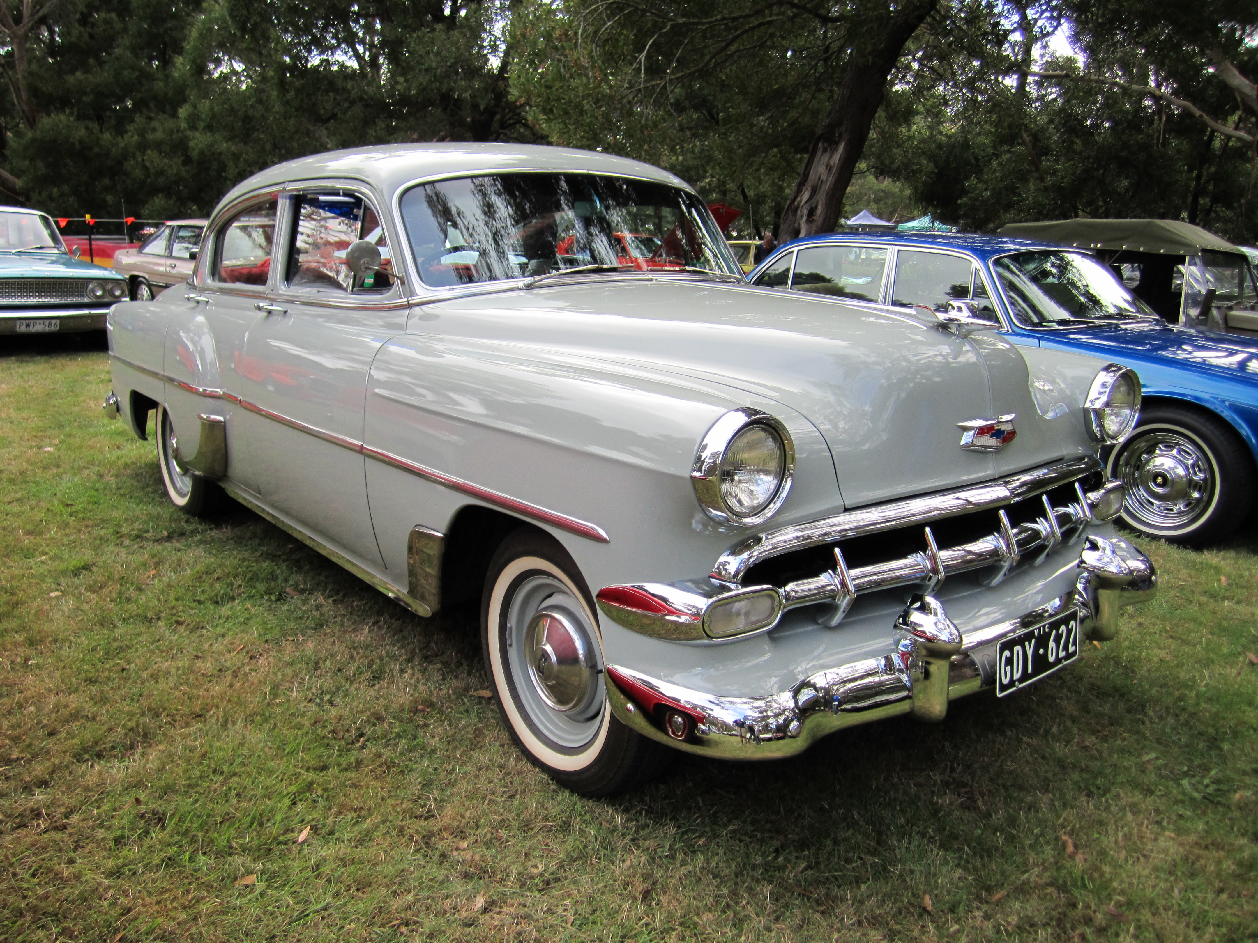 Available in Base 150, mid 210 & Belair. Bodys; Sedan, Coupe, Hardtop, Wagon & Convertible. Engine; 235 cu in 6 cyl